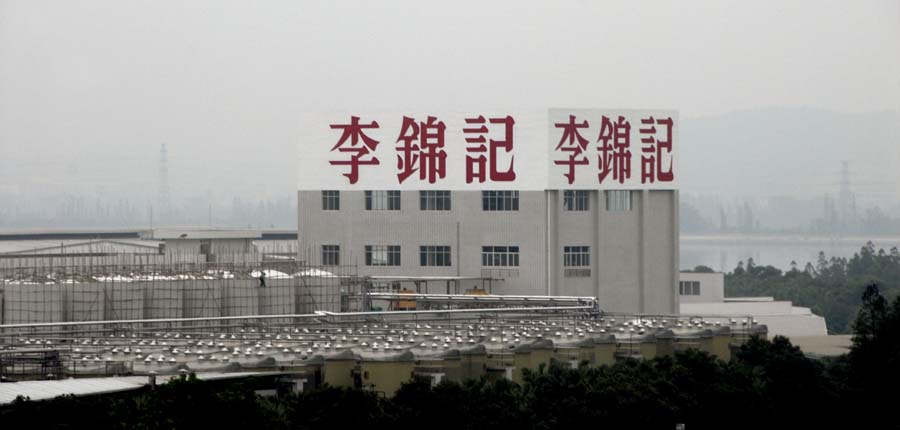 Lee Kum Kee production plant of Jiangmen.